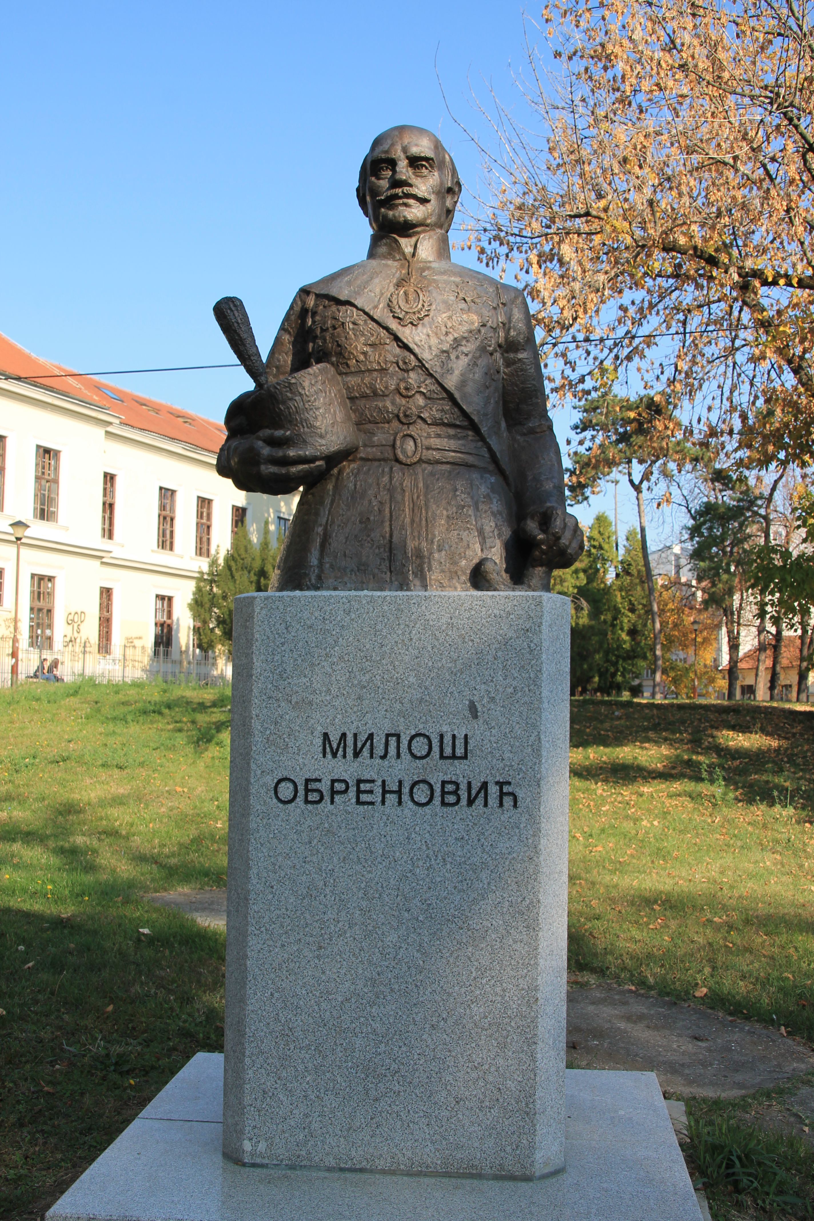 National Museum of Kragujevac